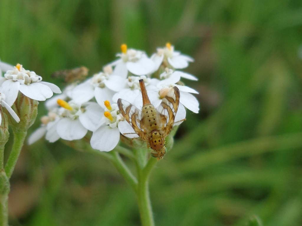 Chaetorellia jaceae. Found in Audriņi village near Rezekne city, Latvia